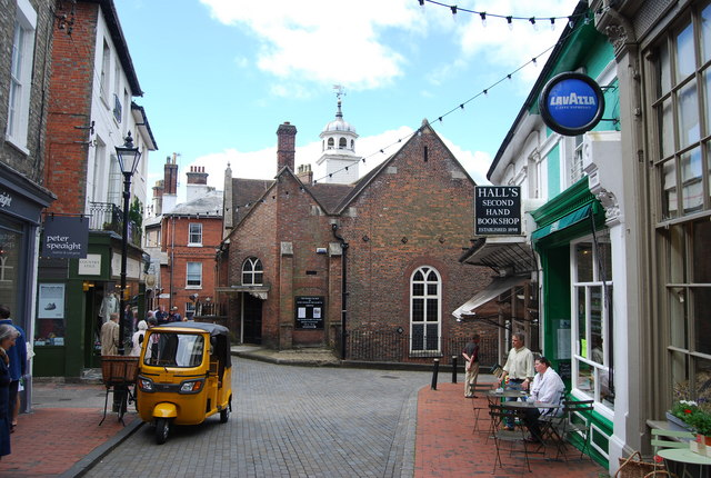 Tuk Tuk in front of The King Charles The Martyr Church, Tunbridge Wells